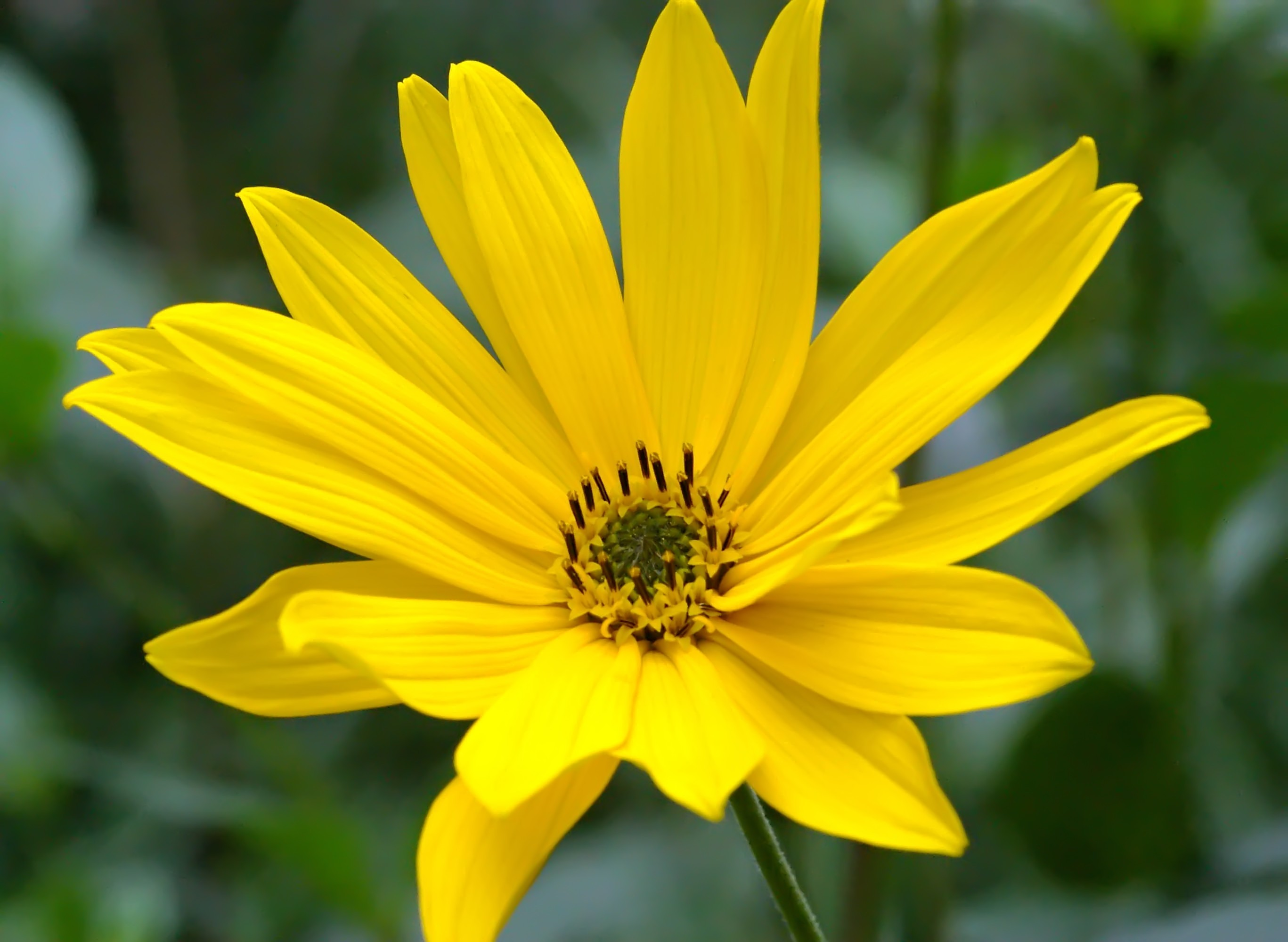 Inflorescence of Jerusalem artichoke, Helianthus tuberosus (Asteraceae).